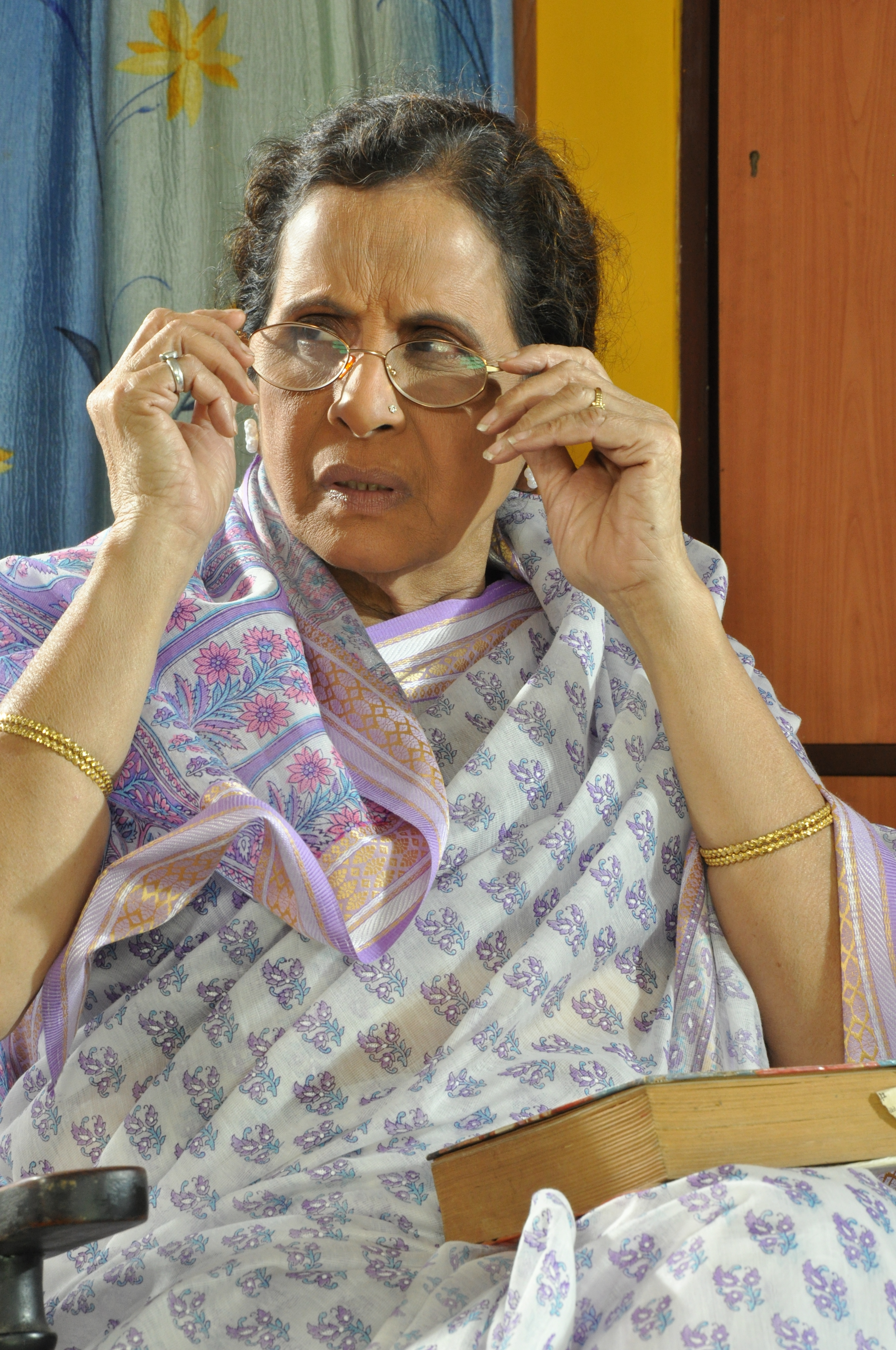 Usha Nadkarni